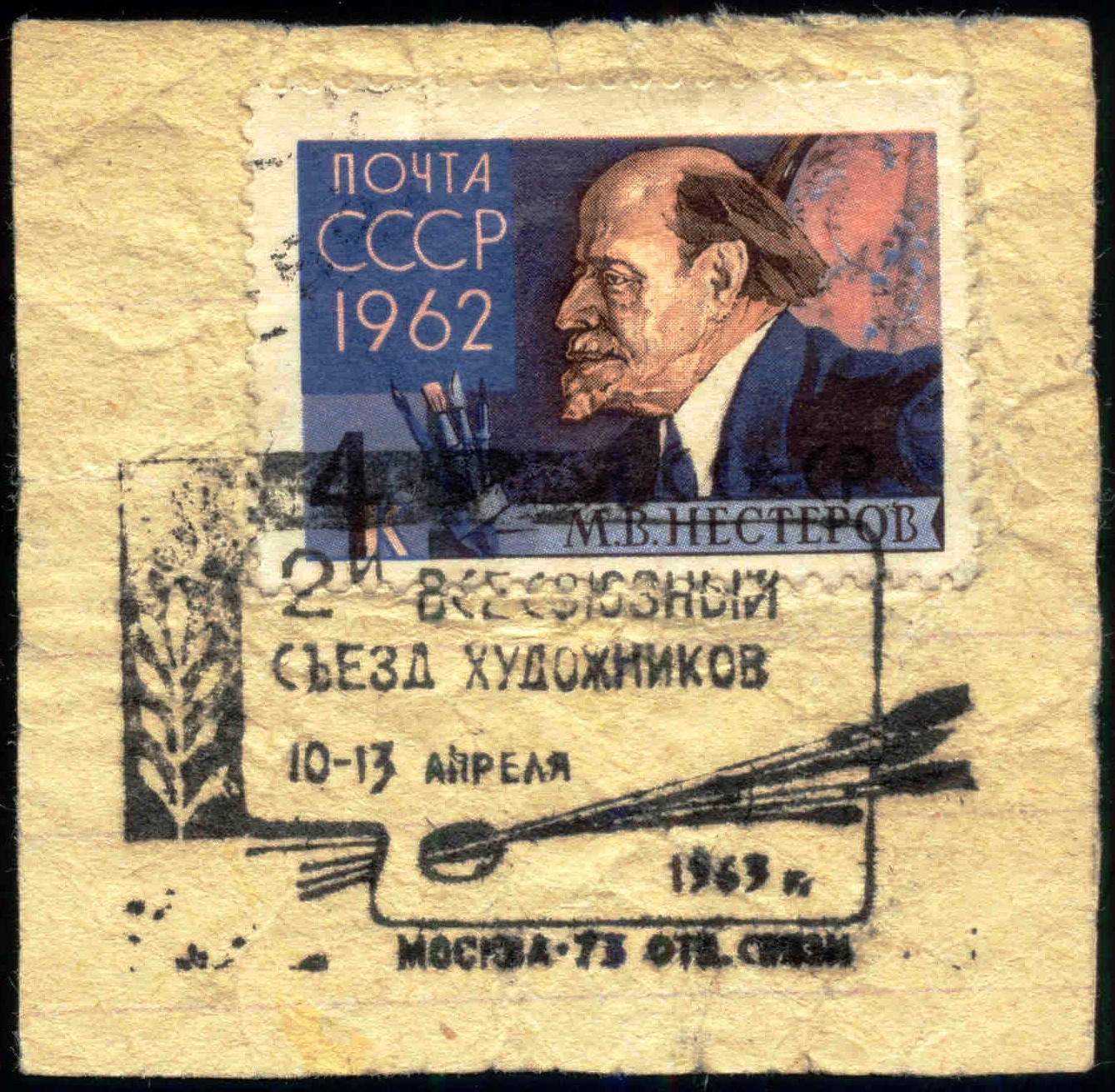 1962 USSR stamp dedicated to artist M. Nesterov, 4 kop., cancelled by a special cancellation dedicated to the 2nd All-Union Congress of Artists, April 10-13, 1963, Moscow, 73rd post office.